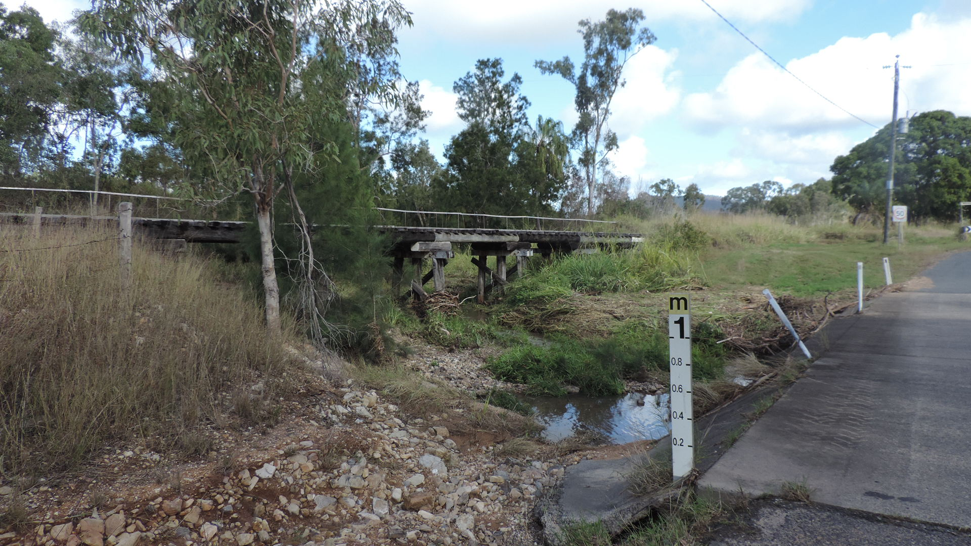 Railway bridge, Mount Chalmers, Shire of Livingstone, Queensland, 2016